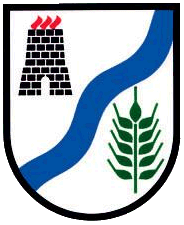 Former coat of arms of Striegistal until 2008